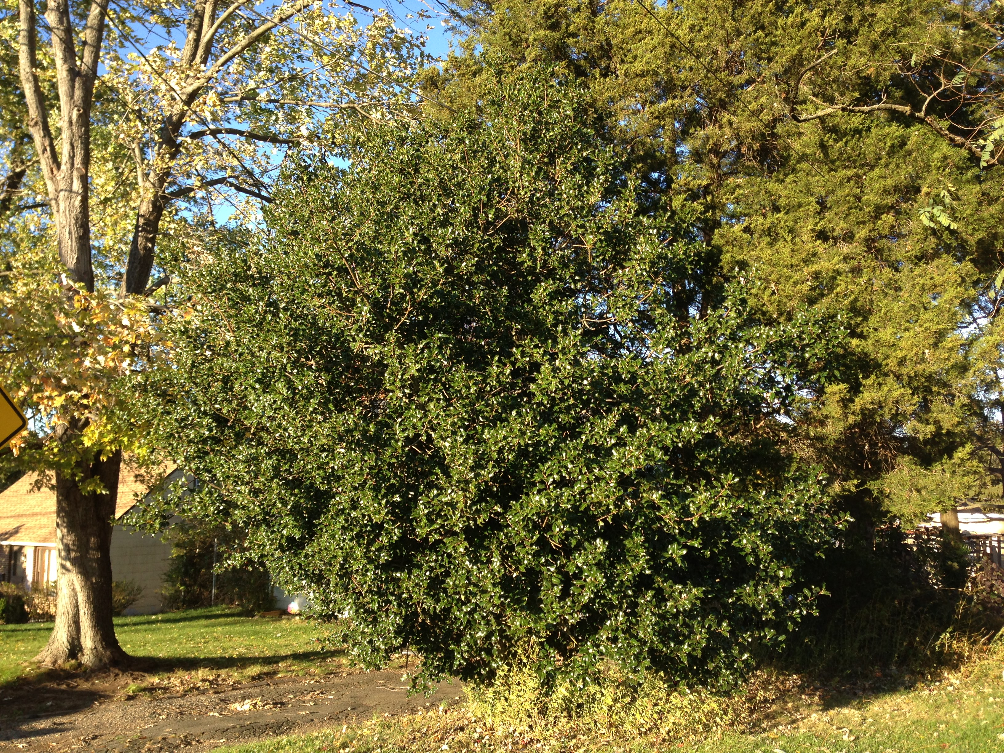 English Holly along Glen Mawr Drive in Ewing, New Jersey